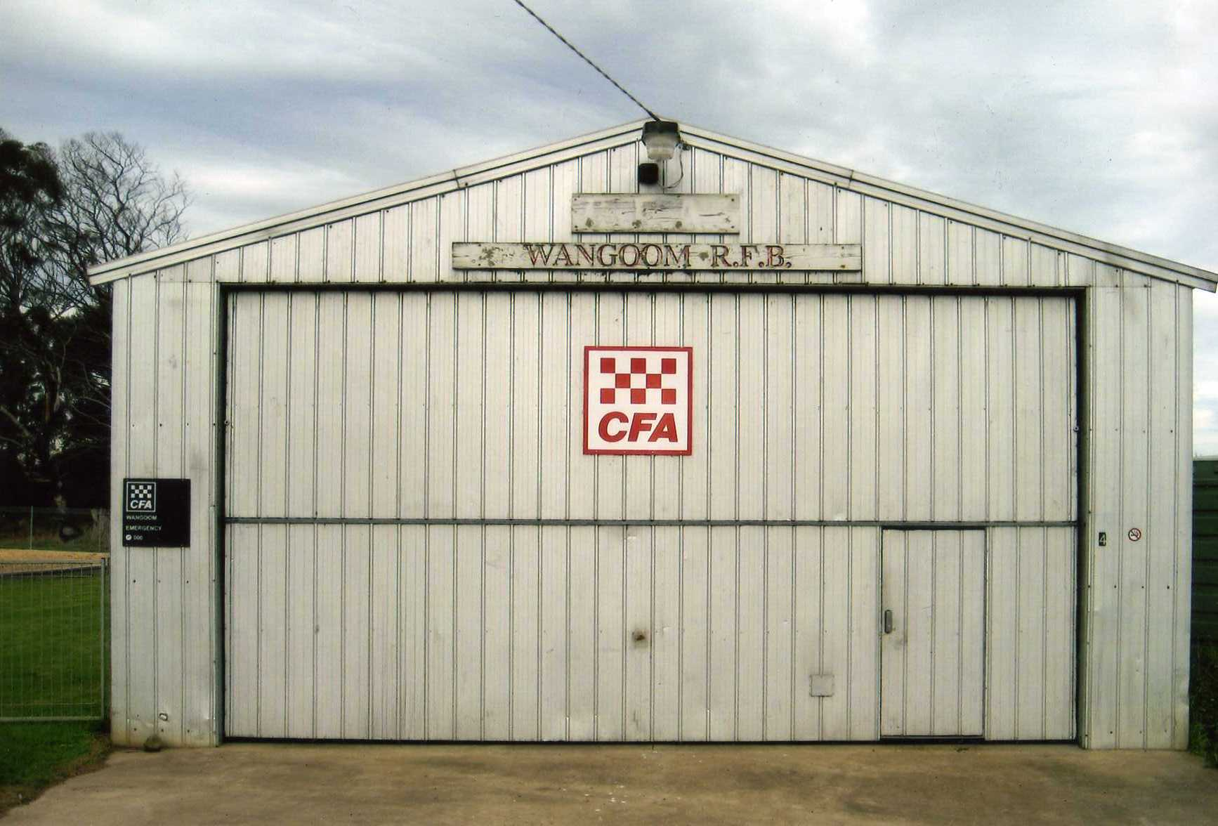 view from main street april 2012